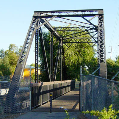 A Southern Pacific Railroad bridge, now part of the Iron Horse Regional Trail. This crosses a channelized Walnut Creek at the Concord-Pleasant Hill boundary immediately south of Monument Boulevard. This is a warren truss bridge with vertical supports. Image by User:Leonard G.